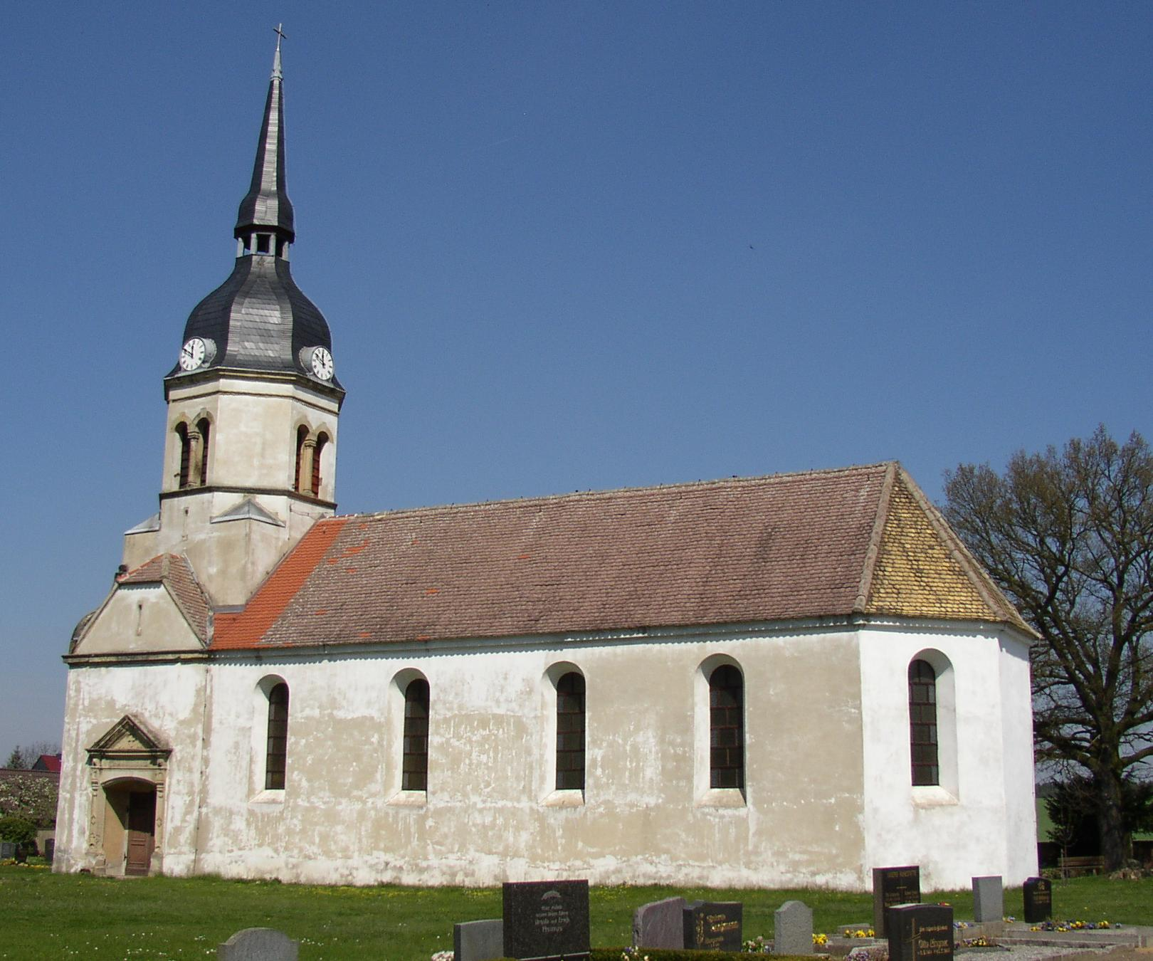 Church in Schköna in Saxony-Anhalt, Germany